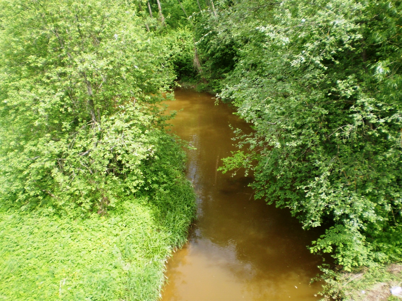 Kirkšnovė River near Ariogala. Lithuania